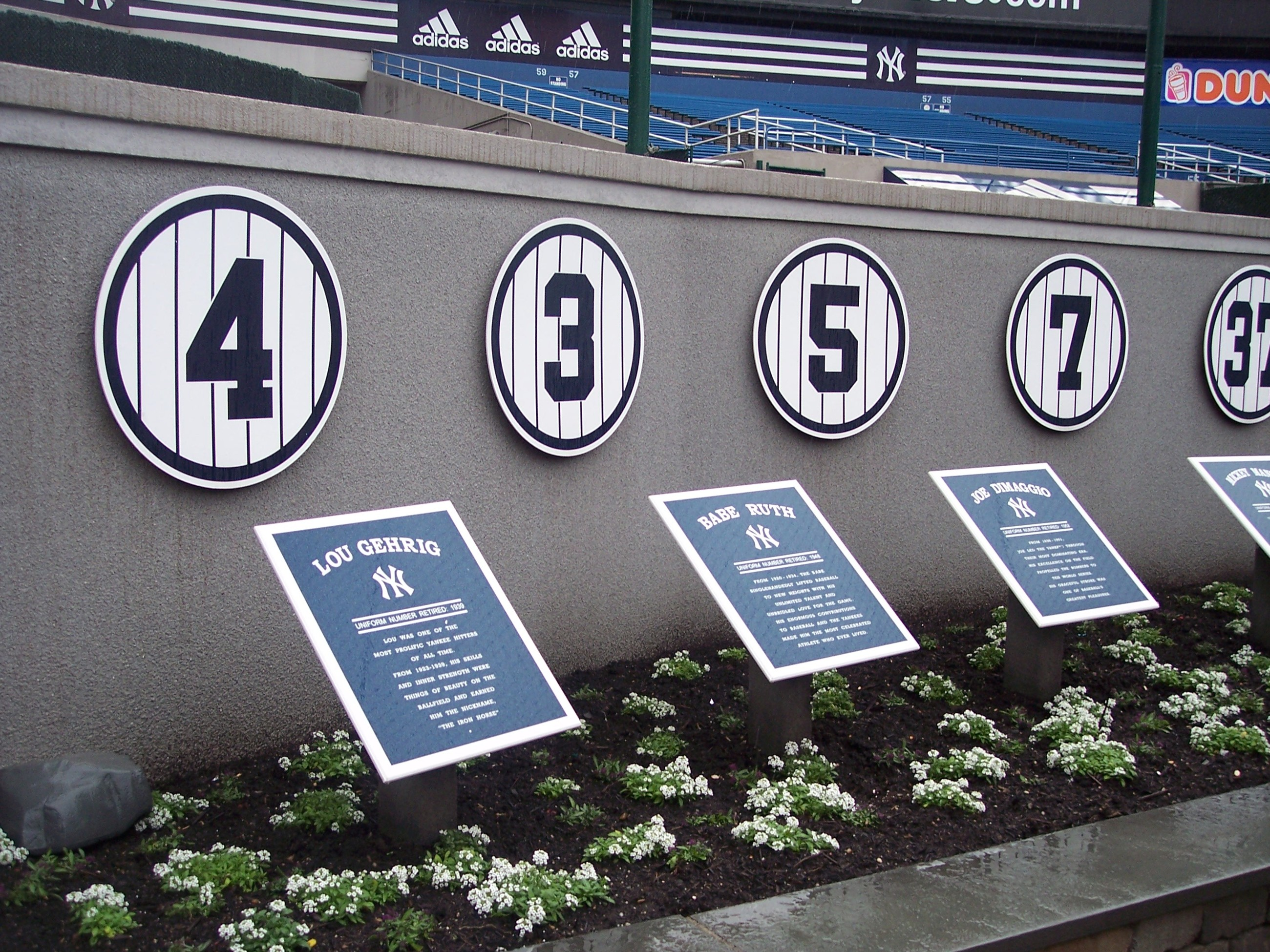 The first four in the row of retired numbers in the Yankee Stadium